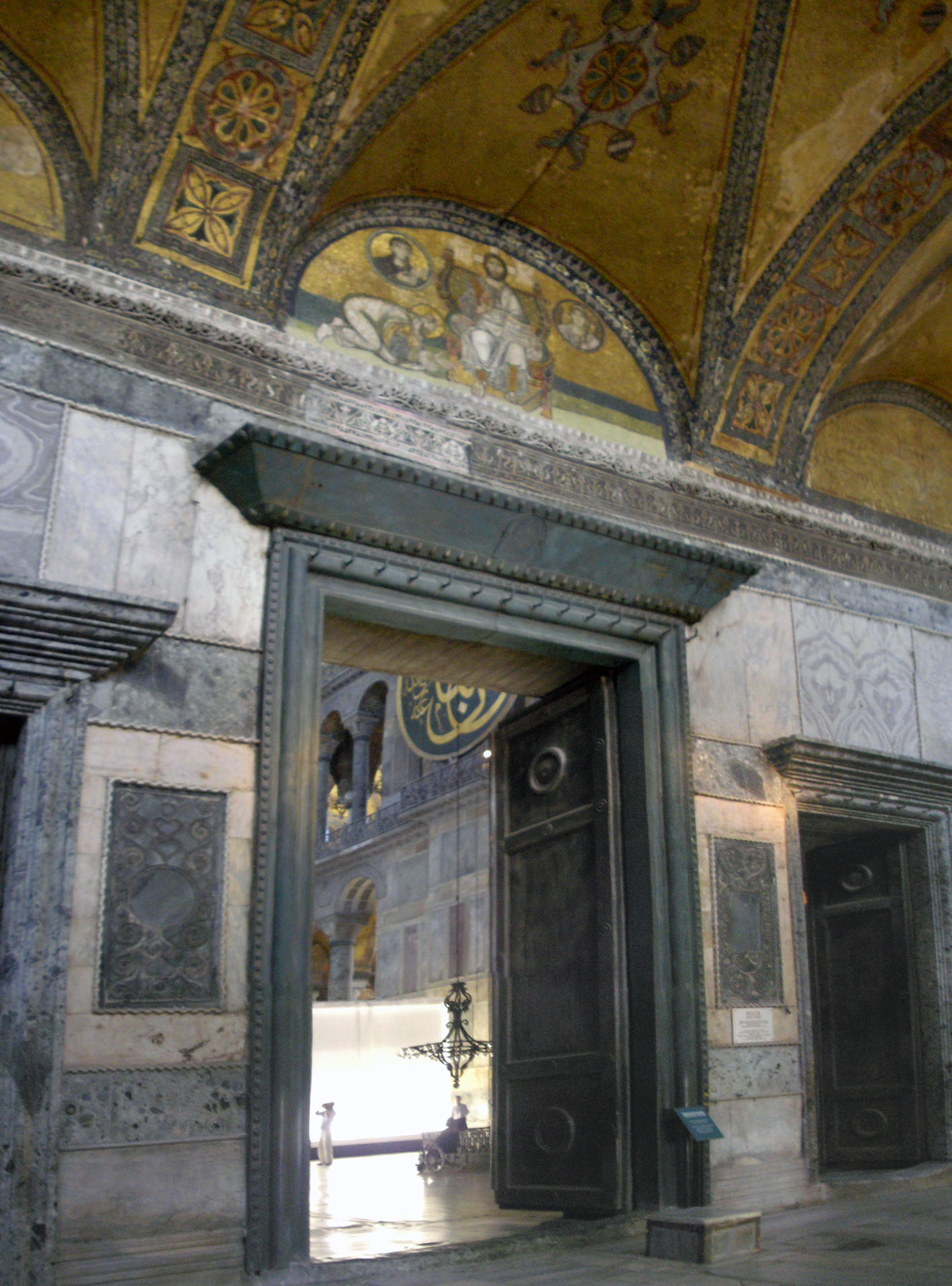 The Imperial Gate inside the Hagia Sophia, which was reserved only for the emperor. The famous byzantine mosaic above the portal depicts Christ and Emperor Leo VI the Wise.